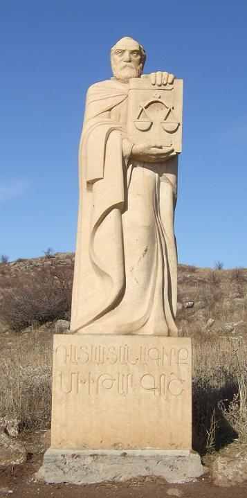 Statue of Mkhitar Gosh, 12-13th c. Armenian scholar, holding Datastanagirq (Book of Reprisal), the code of law which he wrote. Located near the Monument of Armenian Alphabet, Aragatsotn province, Armenia.